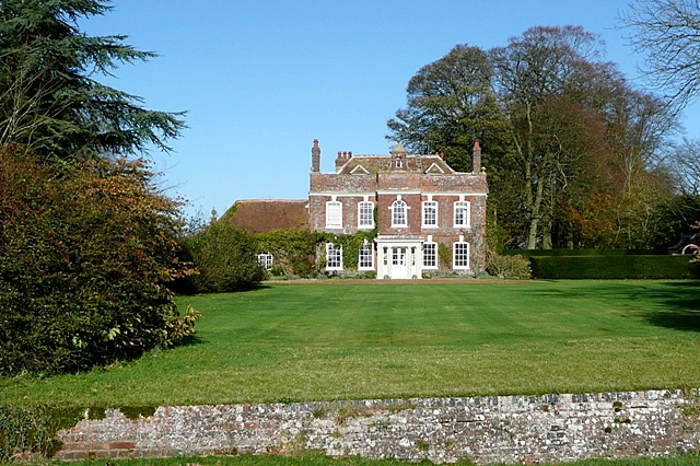 The Old Rectory, Farnborough, West Berkshire, England, seen from the south. Poet Laureate Sir John Betjeman lived here 1945–51.